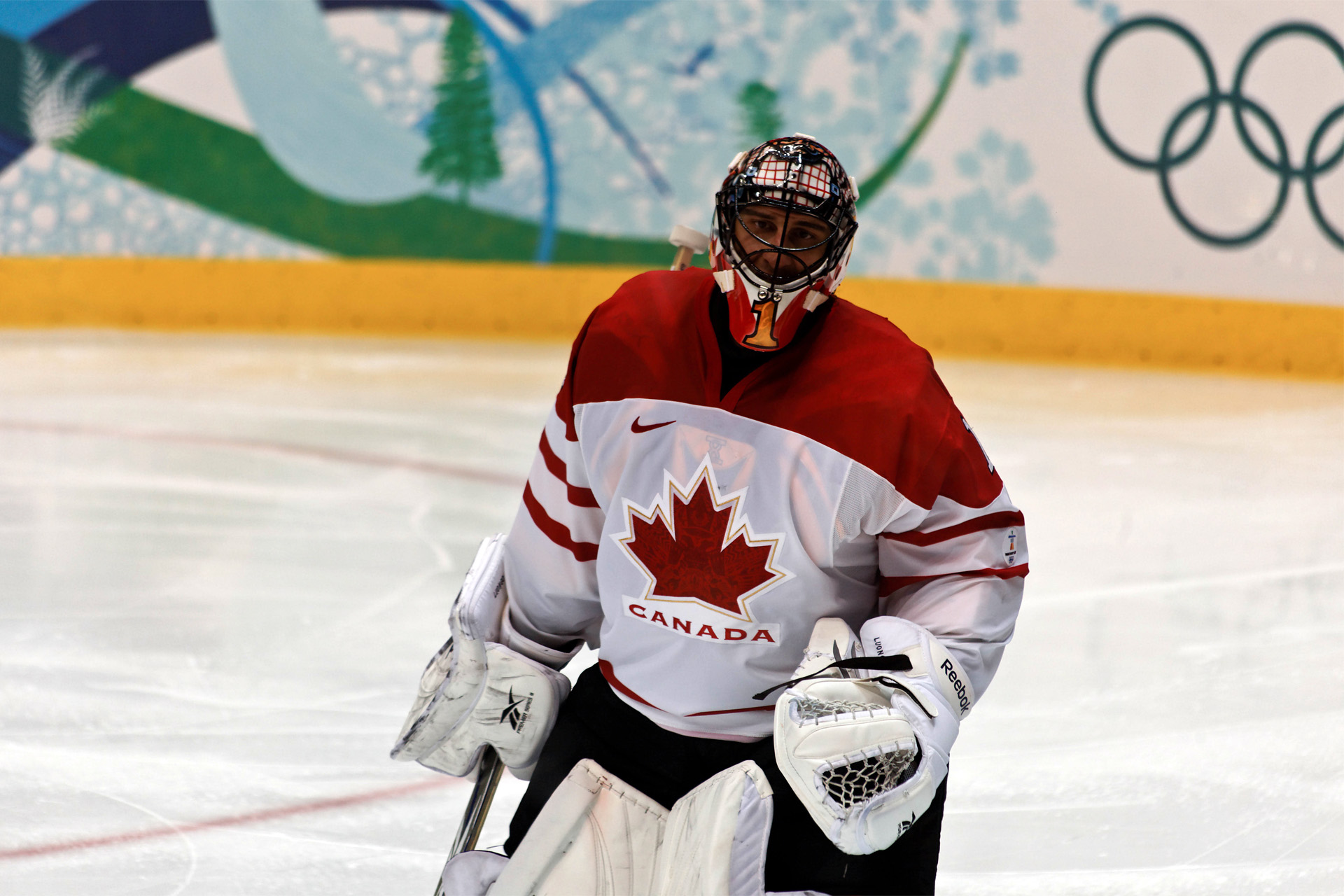 Canada goaltender Roberto Luongo gets ready for the second period of the gold medal game against United States during the 2010 Winter Olympics.